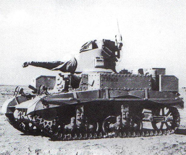 British Stuart tank of the 7th Armoured Division, Egypt